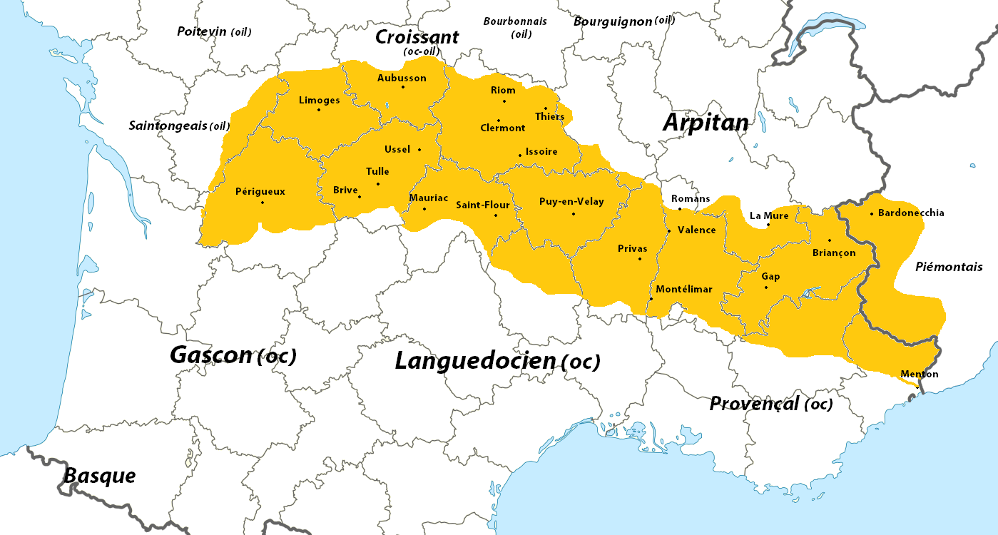 Nord-occitan language area.